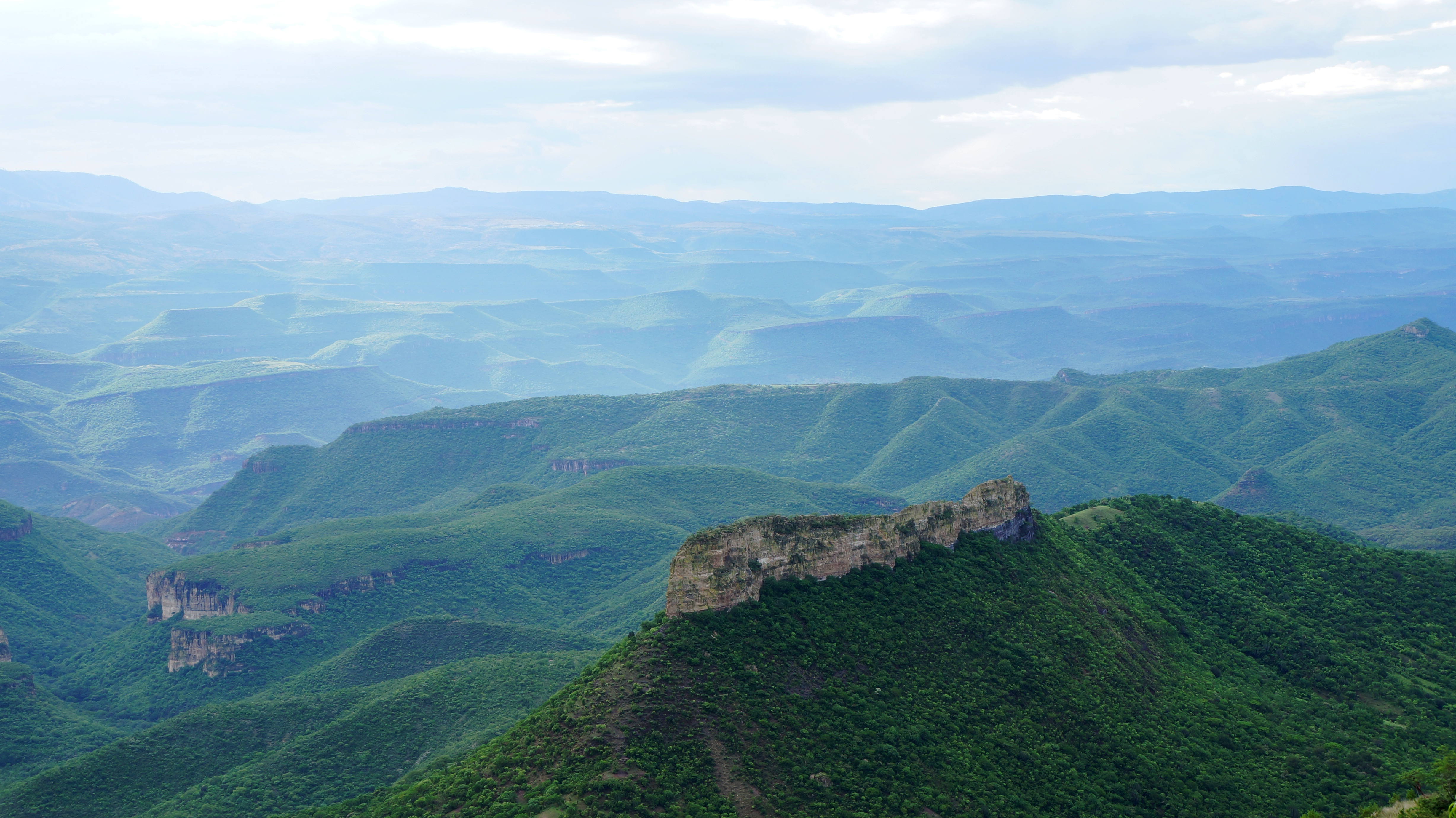 Mountain